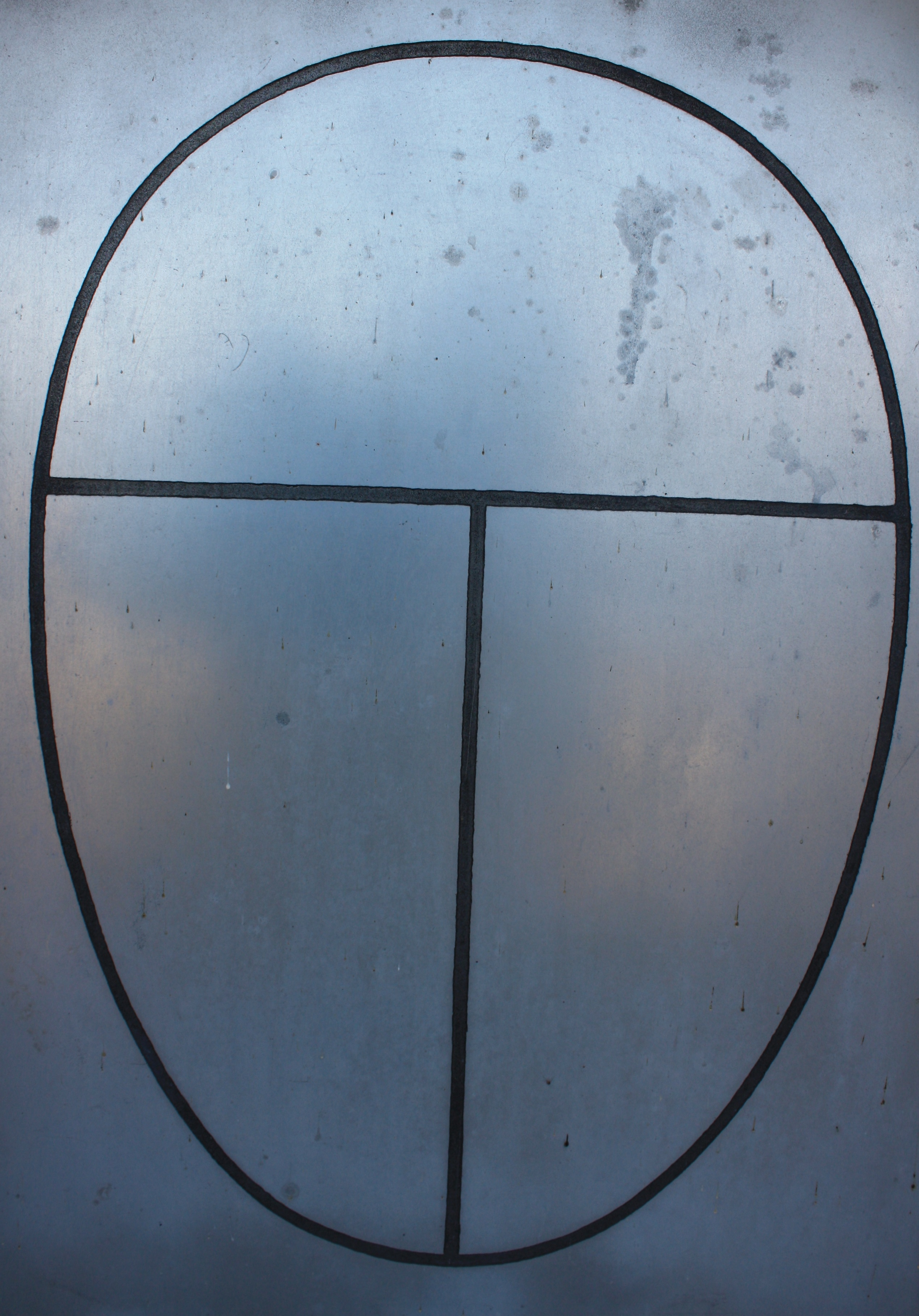 Carinthian Stations of the Cross - Veronica wipes the face of Jesus Locality: Stein im Jauntal Community:Sankt Kanzian am Klopeiner See